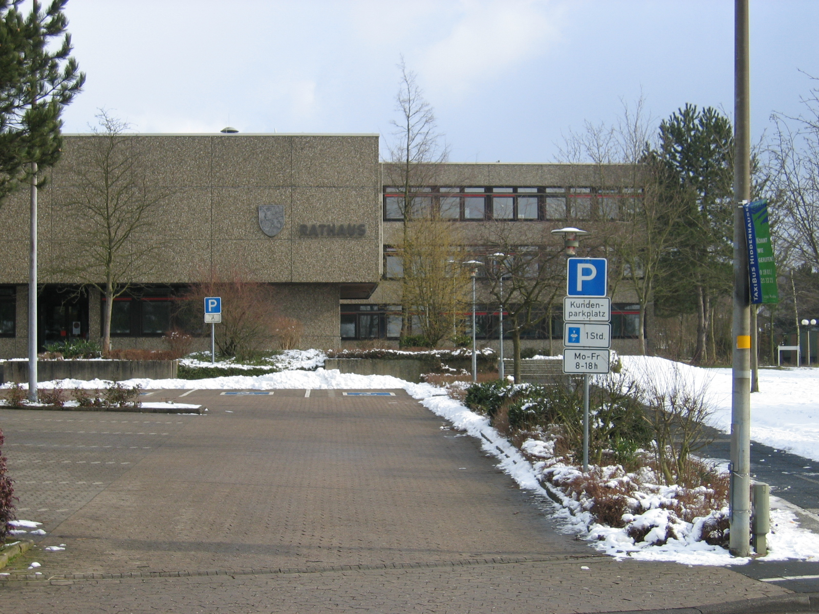 Town hall in town of Hiddenhausen, District of Herford, North Rhine-Westphalia, Germany.